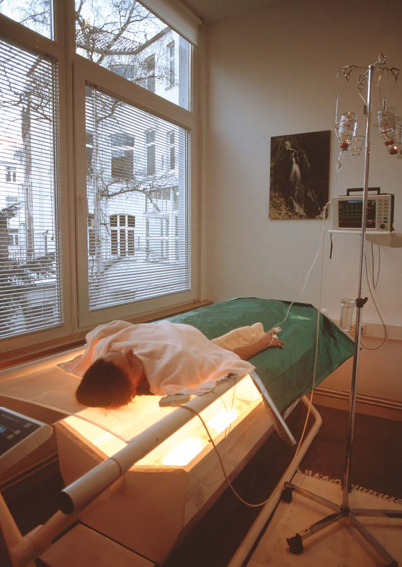 This image describes a whole body hyperthermia therapy in the Hyperthermia Centre Hannover of Dr med Peter Wolf. The image may be used within the Creative Common license granted by Dr med Peter Wolf. The image can be found in the book: Innovations in biological cancer therapy, a guide for patients and their relatives, Dr med Peter Wolf, Naturasanitas 2008, ISBN 978-3-9812416-1-7, page 31.